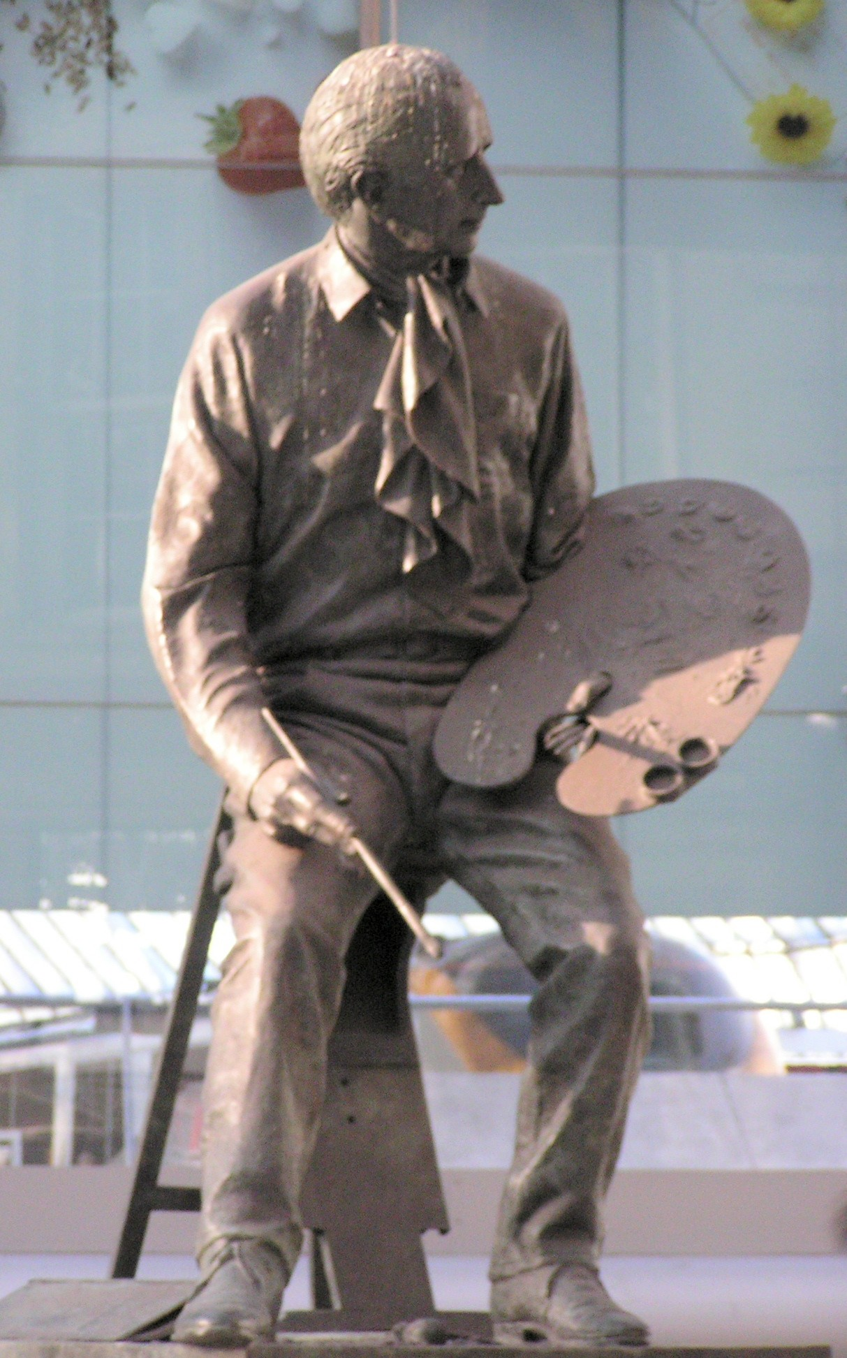 Statue of Terence Cuneo by Philip Jackson. Waterloo Station, London. Photographed by James Gray, 9th February 2006.